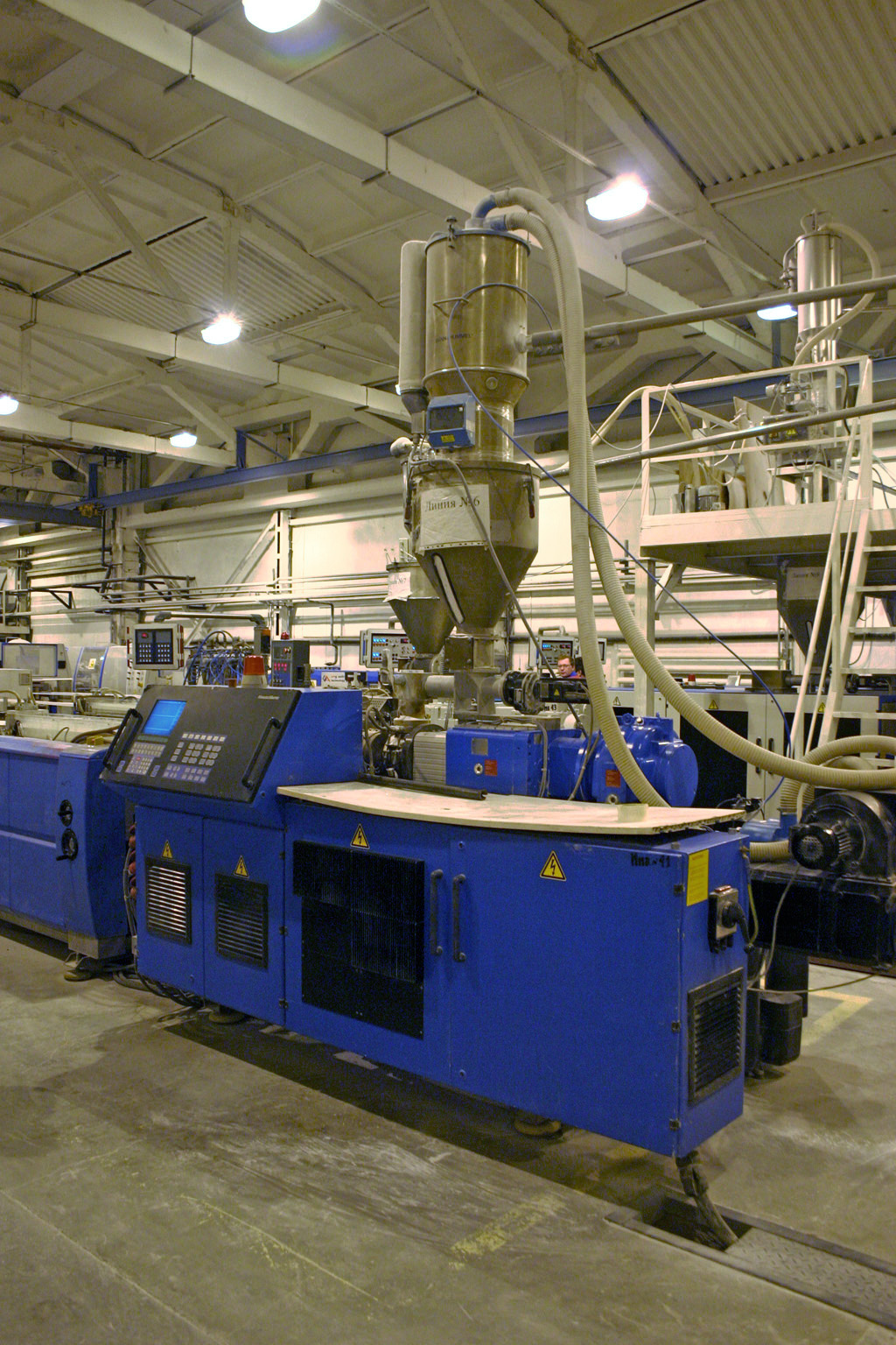 Extruder for plastic plinthes